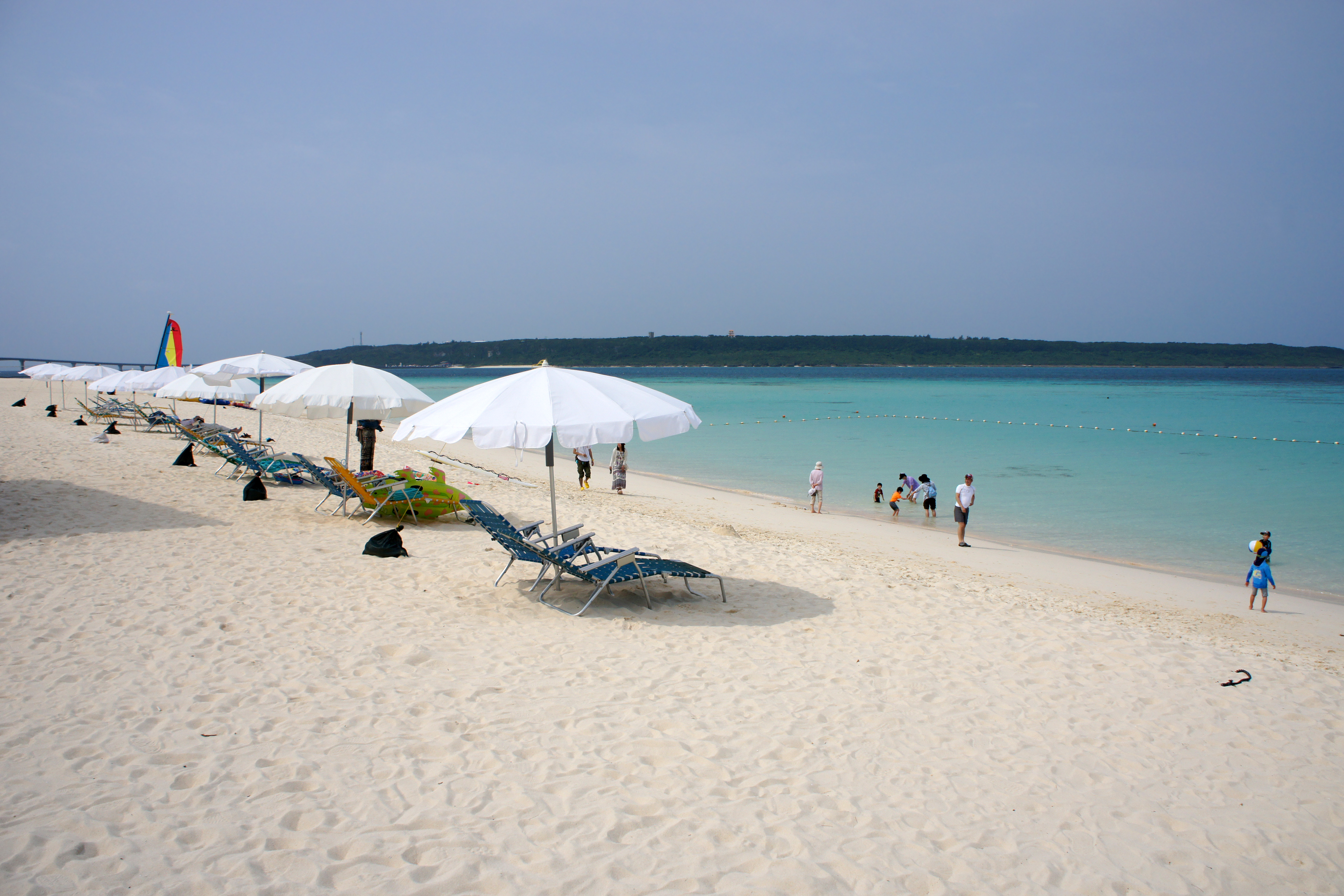 at Yonahamaehama Beach in Miyakojima, Okinawa Prefecture, Japan.